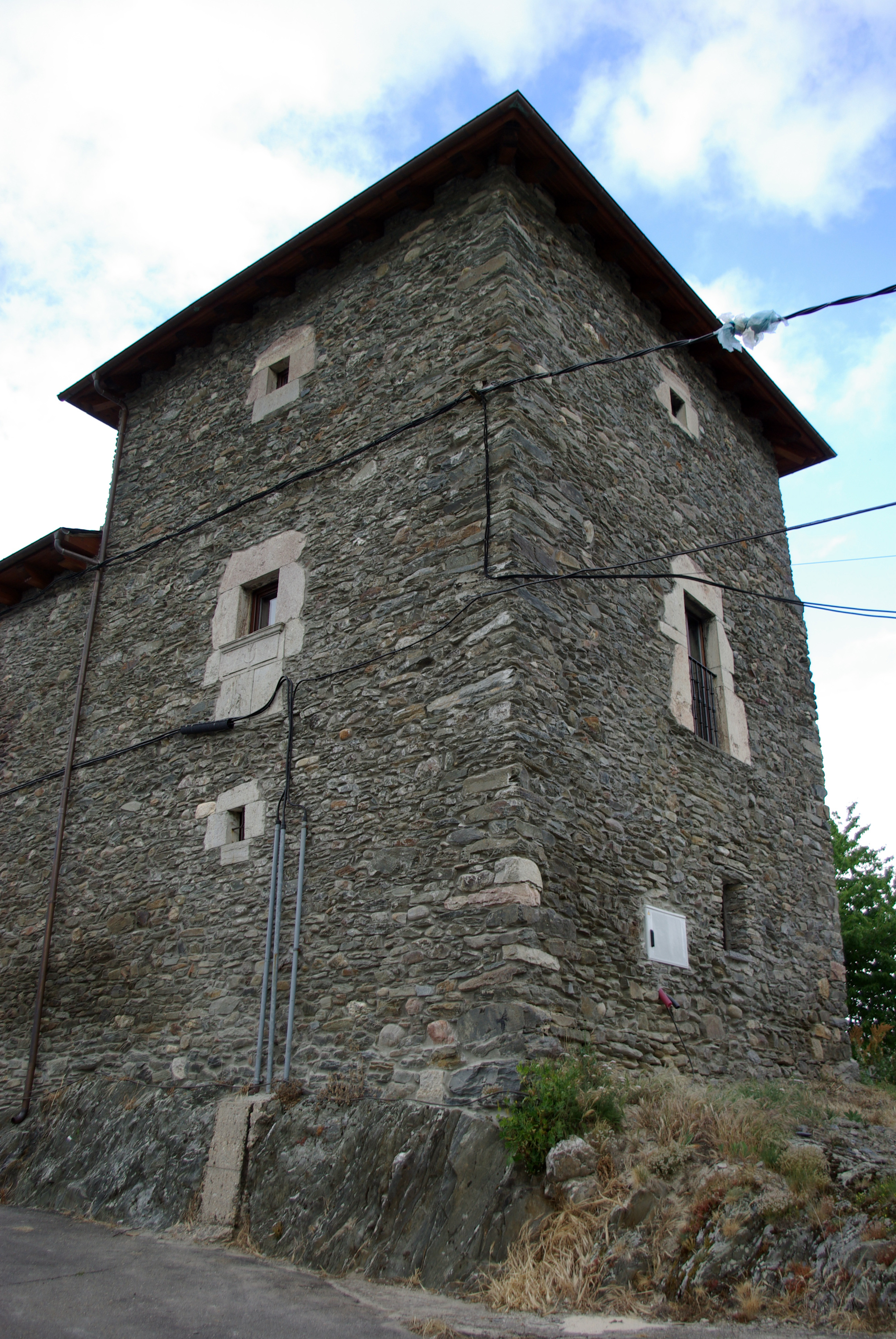 Escutcheon house of Álvarez Carballo in Murias de Paredes (León, Spain). Luna and Omaña valleys Man and the Biosphere Programme Interpretation Centre. Southern tower.